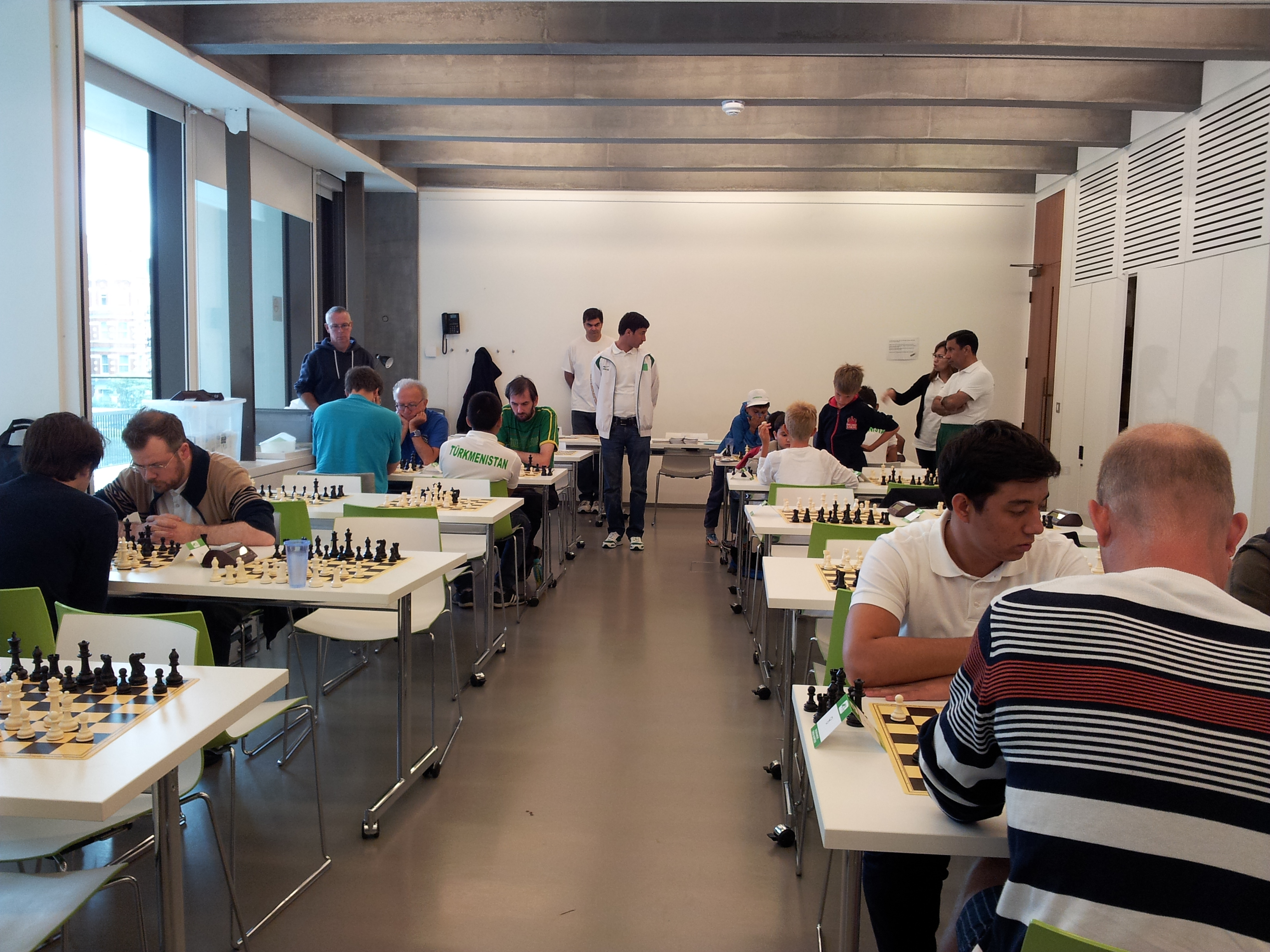 Mind Sports Olympiad, 17/08/2014